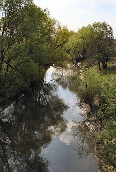 Enhanced quality of picture River Kraszna.jpg